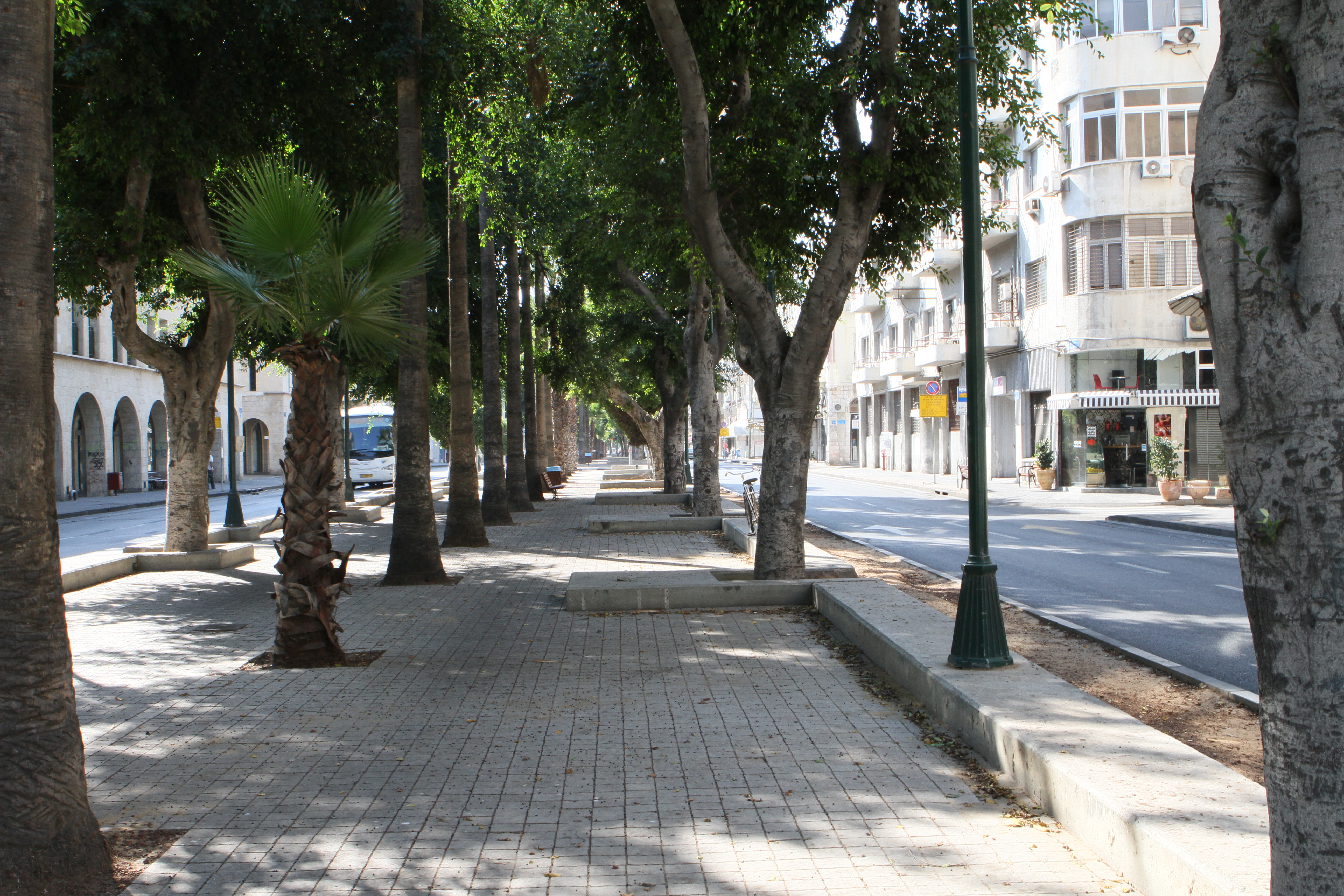 Yerushalaim Blbd. in Jaffa